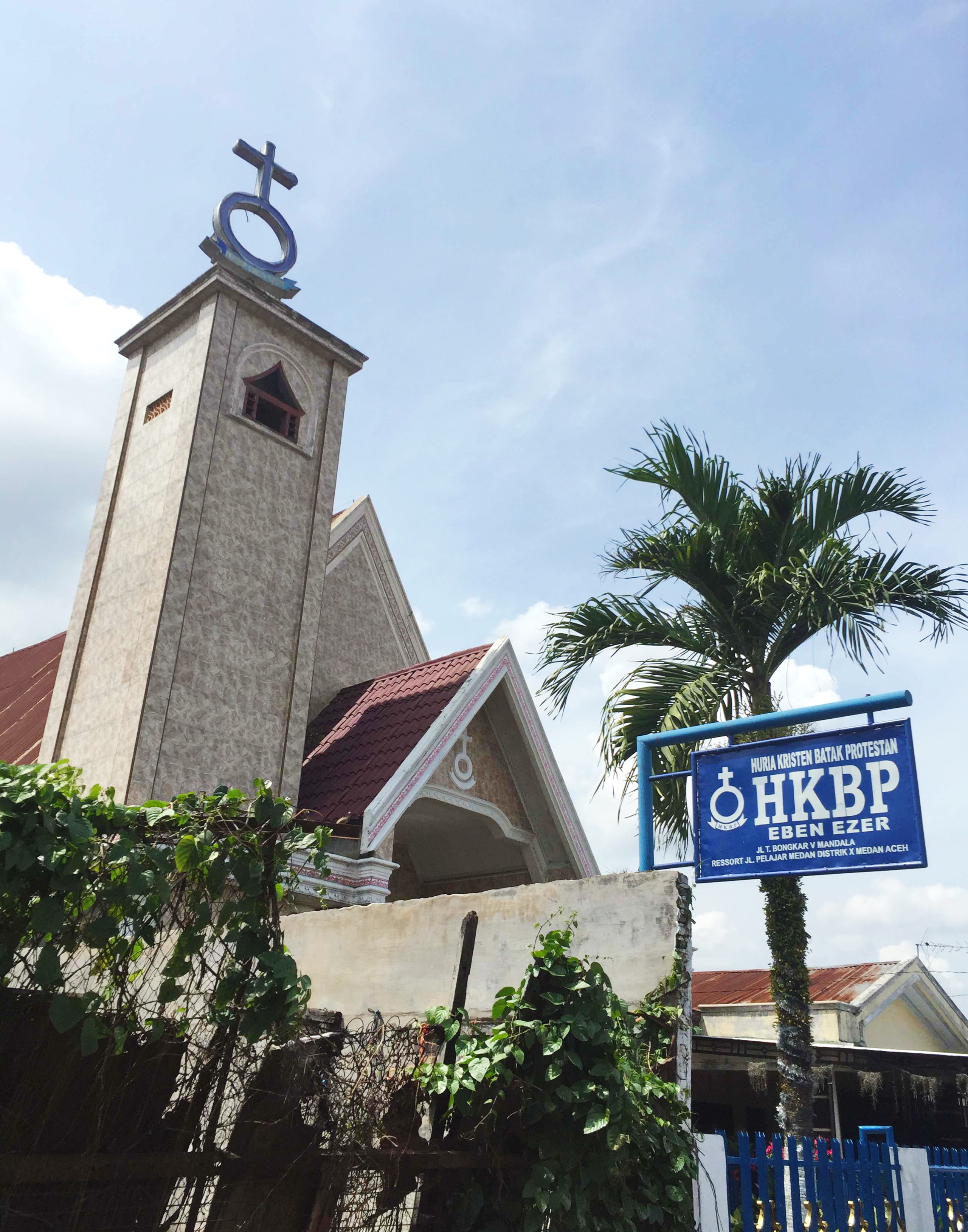 HKBP Eben Ezer, Res. Jalan Pelajar Church in Tegal Sari Mandala II, Medan Denai, Medan